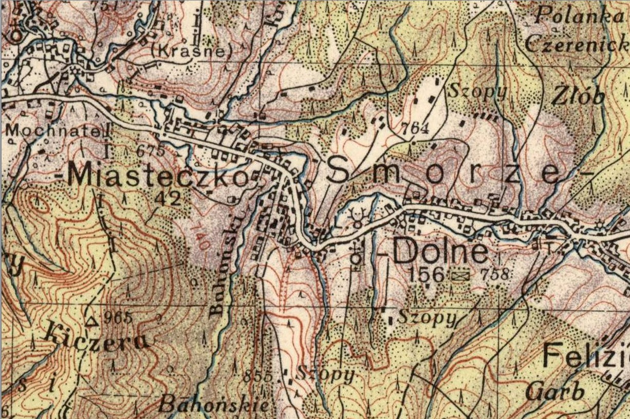 Polish Army Map of 1931, Smorze of Skole rayon Lviv oblast